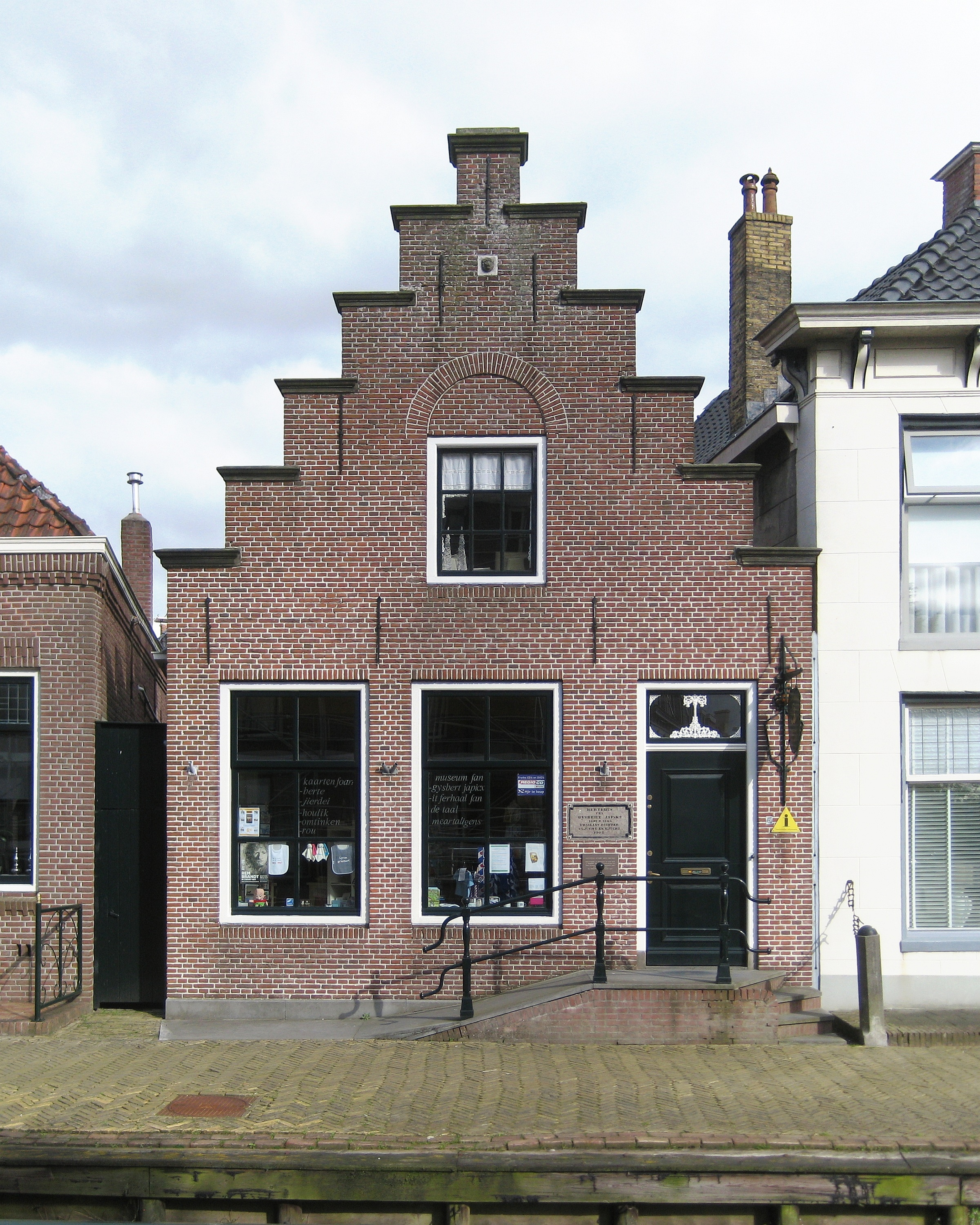 It Gysbert Japicxkhûs in Bolsward, a city in the Dutch province of Fryslân. The Frisian writer and poet Gysbert Japicx (1603-1666) was born in this house.